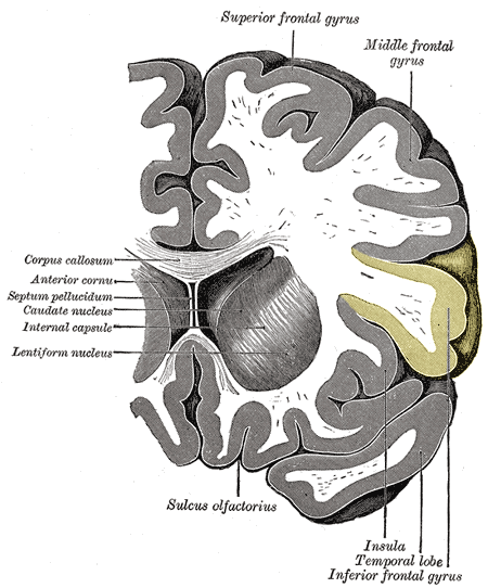 Inferior frontal gyrus.